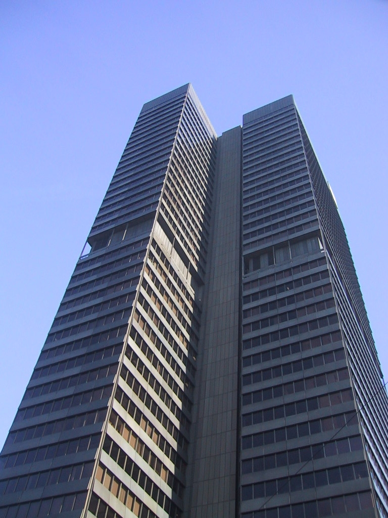 Cityhaus, Frankfurt_img_4124.jpg